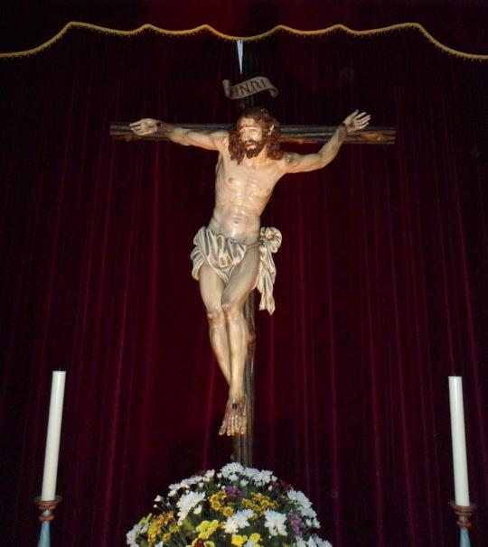 Cristo de la Reconciliación - Basílica de Candelaria (Tenerife)